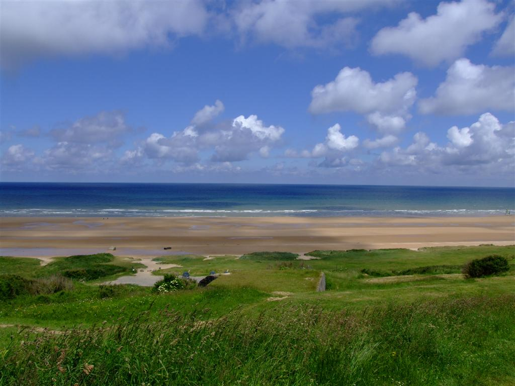 View out of Heinrich Severloh's fox hole over Omaha Beach